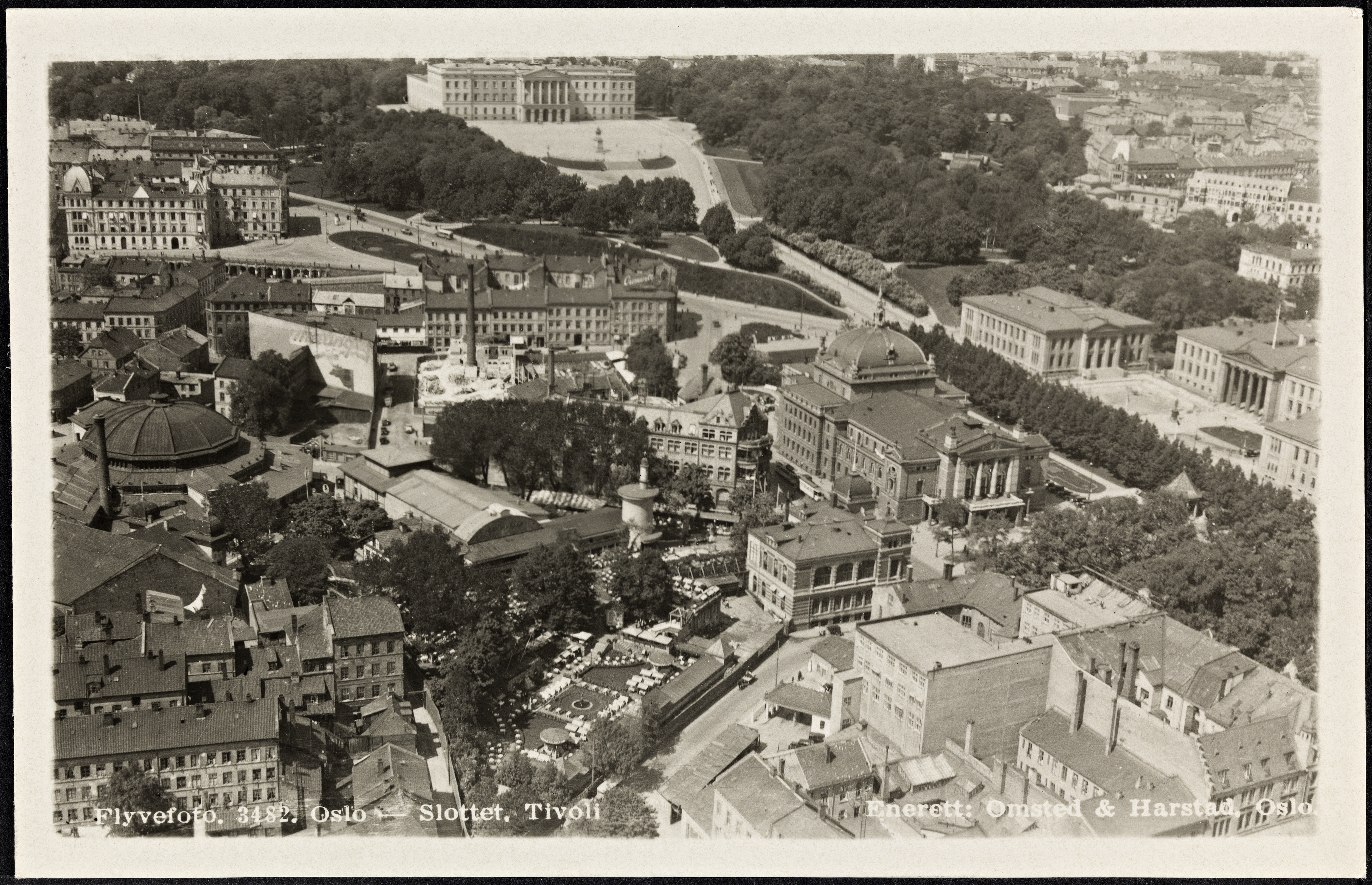 Beskrivelse / Description: Postkort / Postcard. Flyfoto / Aerial photography. Dato / Date: ukjent / unknown Sted / Place: Oslo Fotograf / Photographer: ukjent / unknown Utgiver / Publisher: Omsted & Harstad, Oslo Digital kopi av original / Digital copy of original: s/h postkort, sølvgelatin Eier / Owner Institution: Nasjonalbiblioteket / National Library of Norway Lenke / Link: Bildesignatur / Image Number: bldsa_PK05593